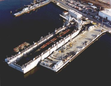 The U.S. Navy medium auxiliary repair dock USS Oak Ridge (ARDM-1) at the submarine base in Groton, Conneticut (USA). ARDM-1 was in service with the USN from 1944 to 2001 and was then passed on the U.S. Coast Guard.